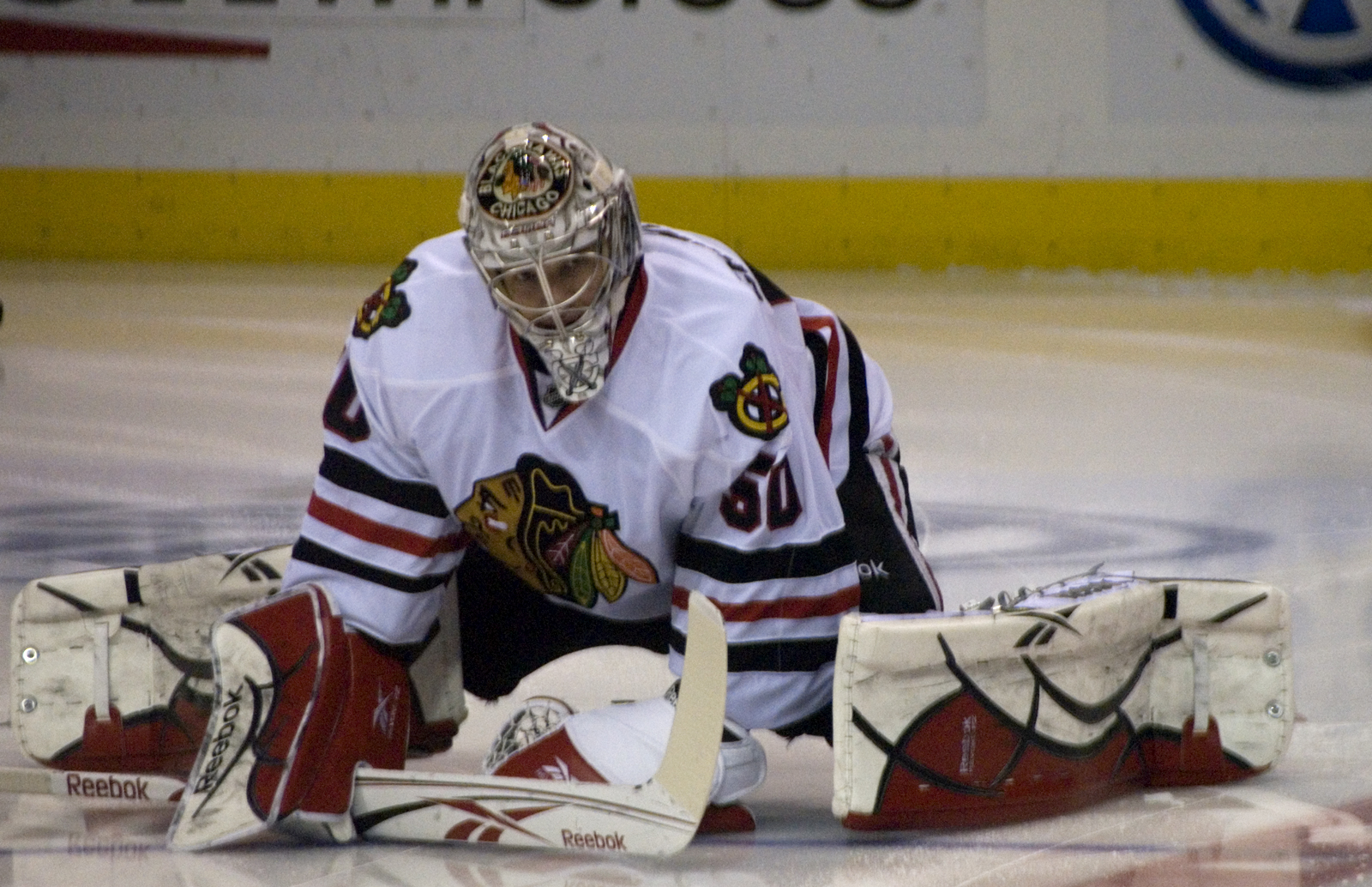 Corey Crawford at Scottrade Center against the Blues